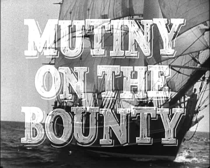 Screenshot from the trailer for the film Mutiny on the Bounty.